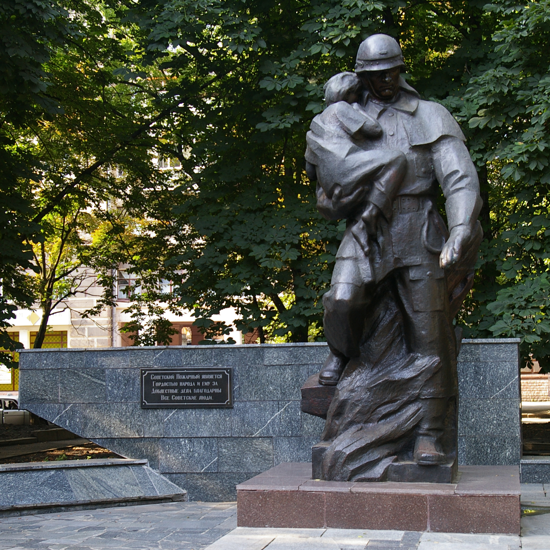 Харьков